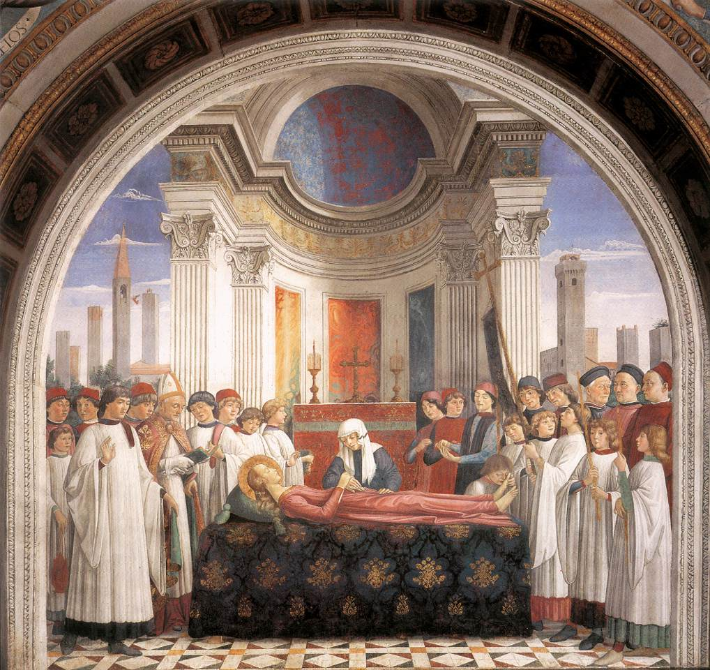 Ghirlandaio, Obsequies of St Fina